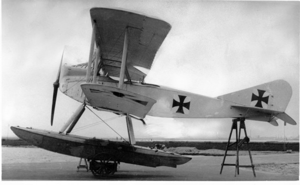 PictionID:43640029 - Catalog:16_004774 - Title:Albatros W.2C June 1916 Nowarra photo - Filename:16_004774.TIF - - - - - Image from the Ray Wagner Collection. Ray Wagner was Archivist at the San Diego Air and Space Museum for several years and is an author of several books on aviation --- ---Please Tag these images so that the information can be permanently stored with the digital file.---Repository: San Diego Air and Space Museum